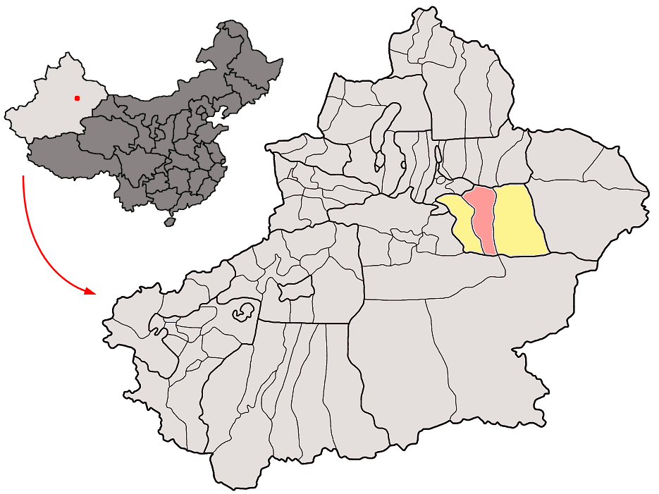 Location of Turpan City (pink) and Turpan Prefecture (yellow) within Xinjiang autonomous region of China Map drawn in september 2007 using various sources, mainly : Xinjiang Uygur autonomous region administrative regions GIS data: 1:1M, County level, 1990 Xinjiang Counties map from